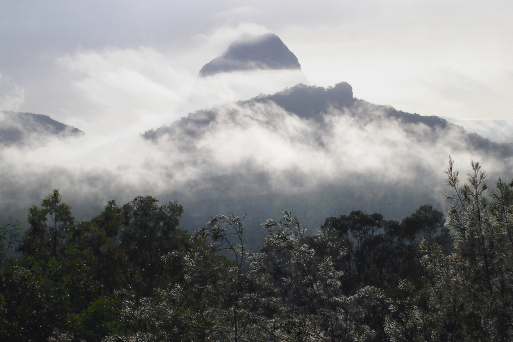 Glass House Mountains National Park, Queensland, Australia